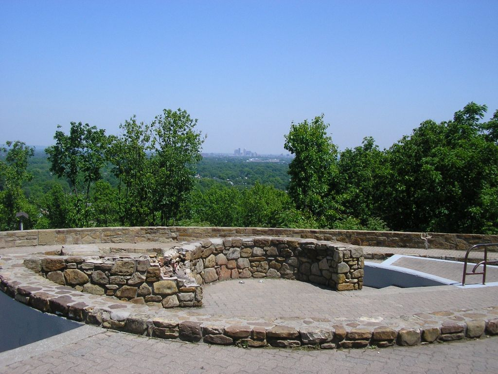 Iroquois Park in Louisville. View from the Northern overlook.